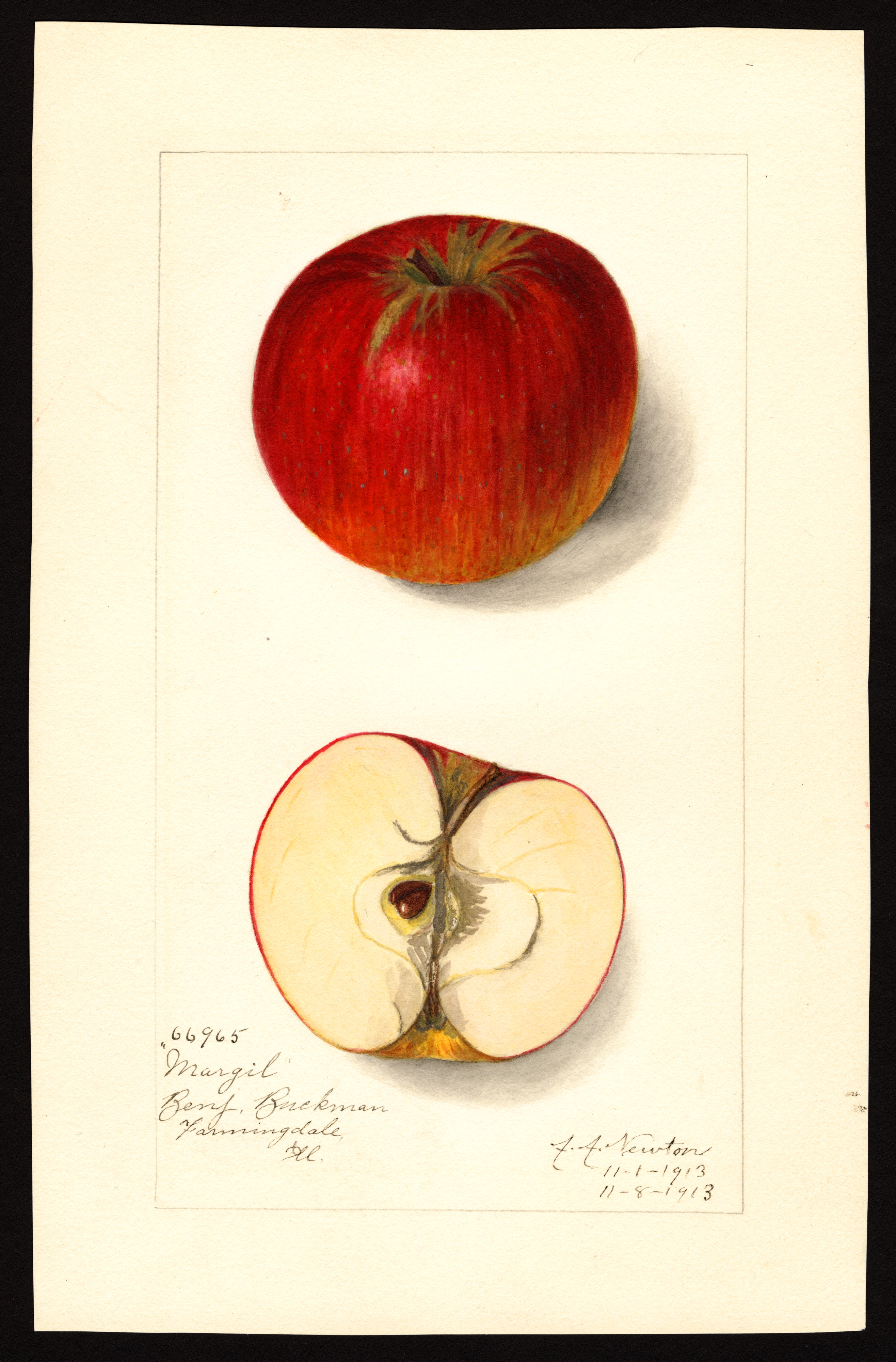 Image of the Margil variety of apples (scientific name: Malus domestica), with this specimen originating in Farmingdale, Sangamon County, Illinois, United States. Source: U.S. Department of Agriculture Pomological Watercolor Collection. Rare and Special Collections, National Agricultural Library, Beltsville, MD 20705.